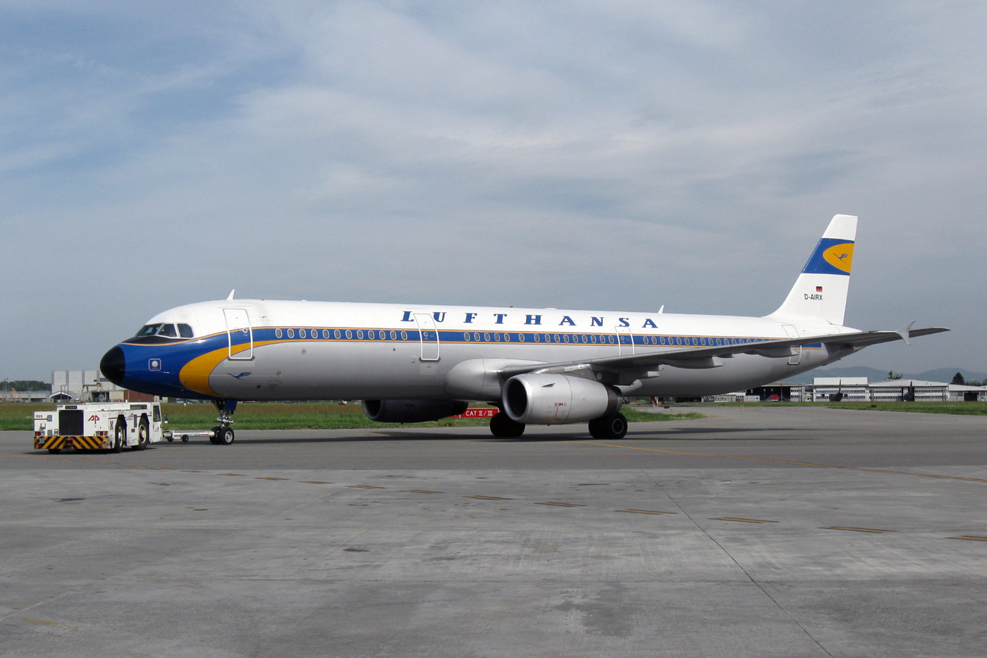 Lufthansa's RetroJet. Airbus A321 D-AIRX at Turin Airport